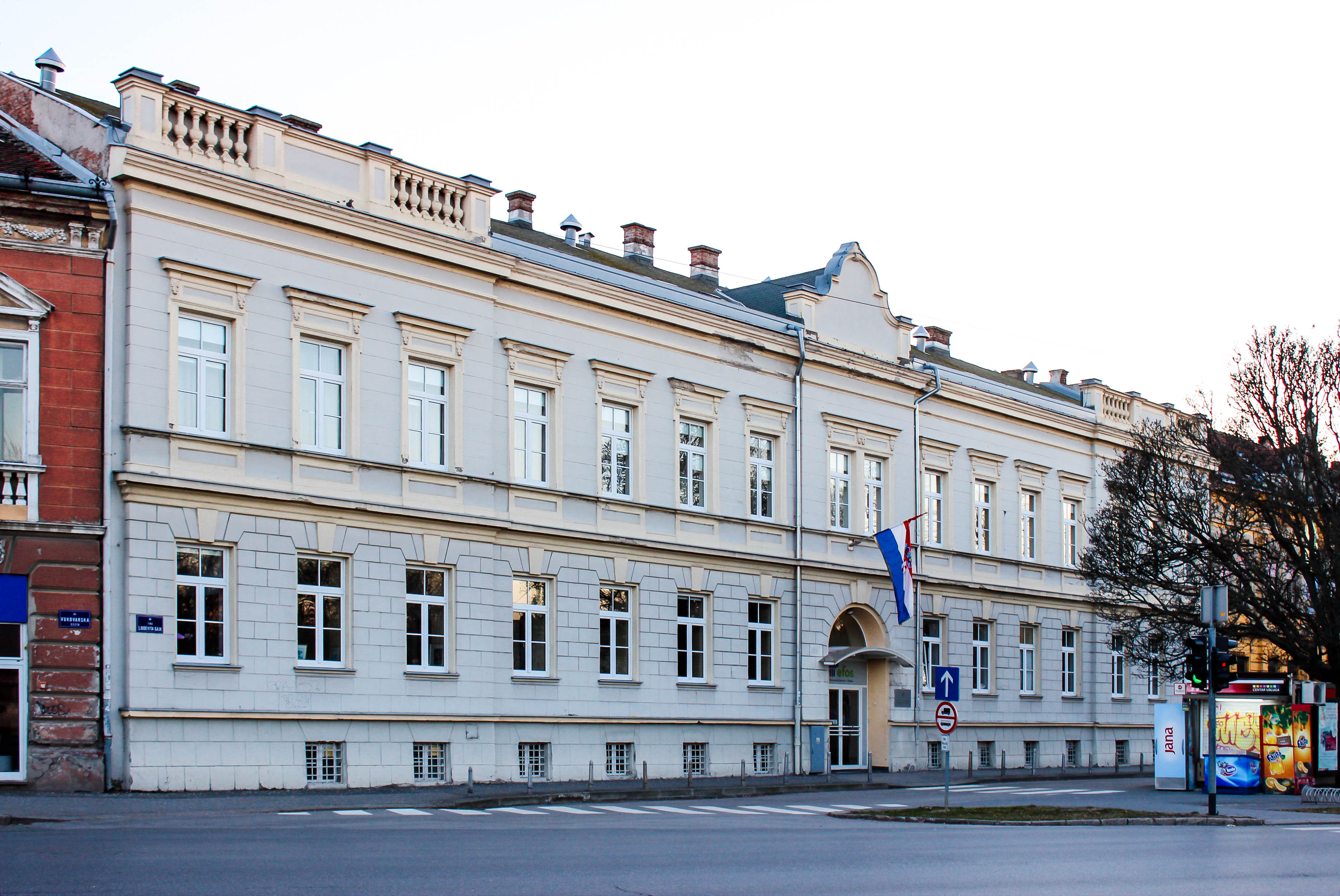 College